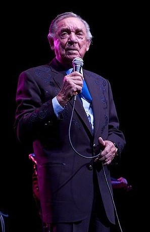 Ray Price performs at the University of Massachusetts Amherst